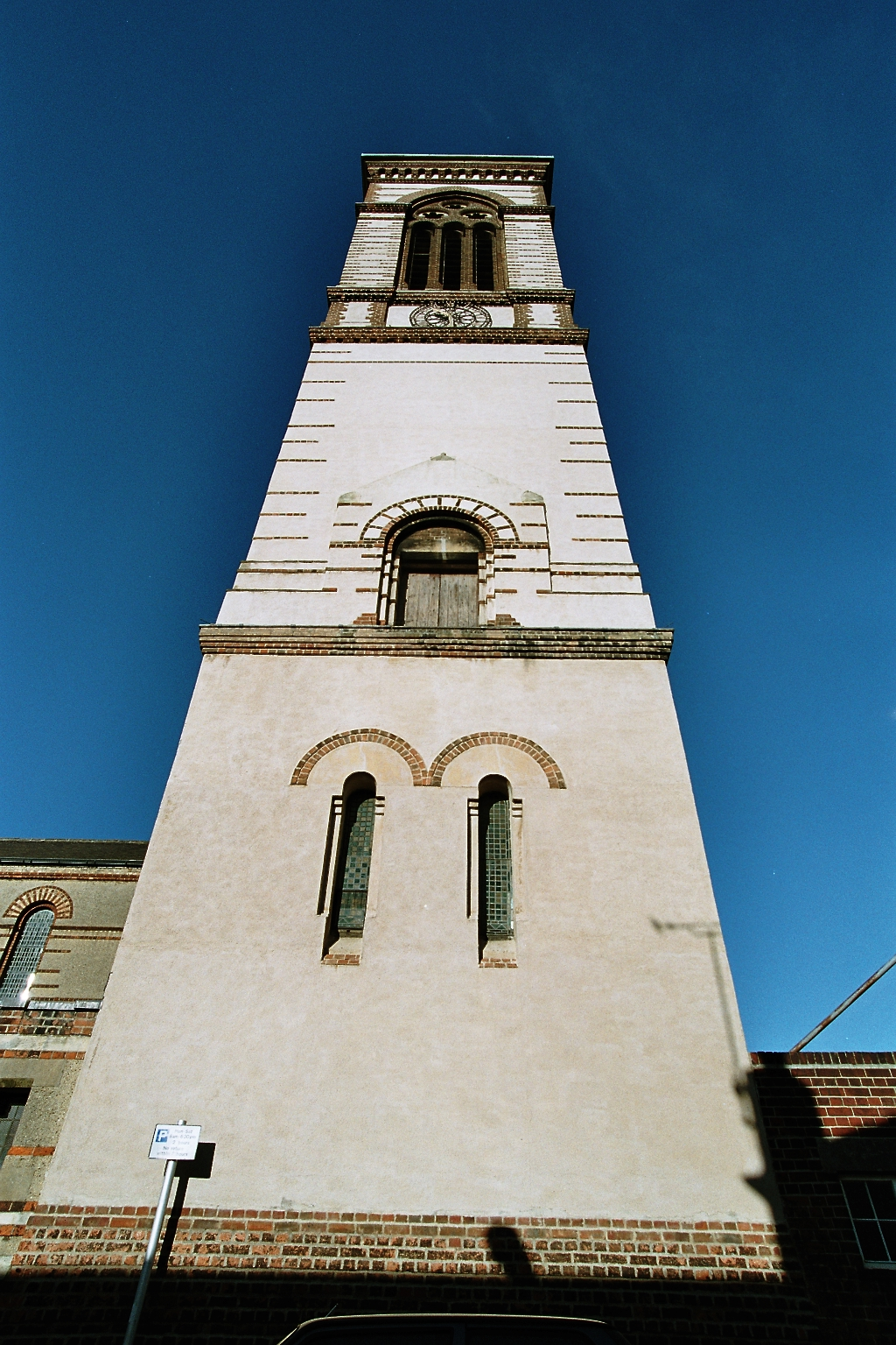 Church of England parish church of St Barnabas, Jericho, Oxford: campanile viewed from the south.